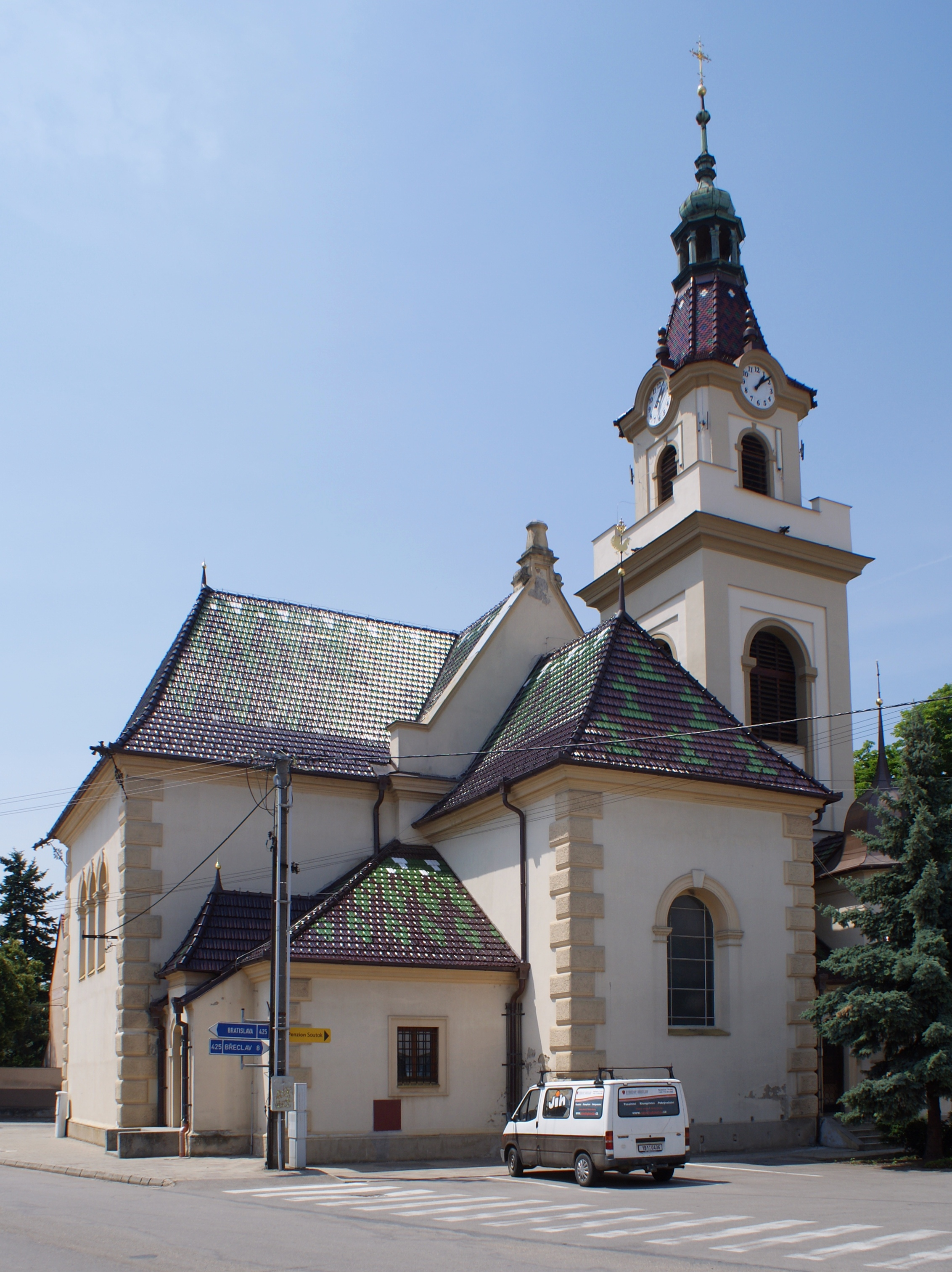 Lanžhot, a town in Břeclav District, Czech Republic, church of the Exaltation of the Holy Cross